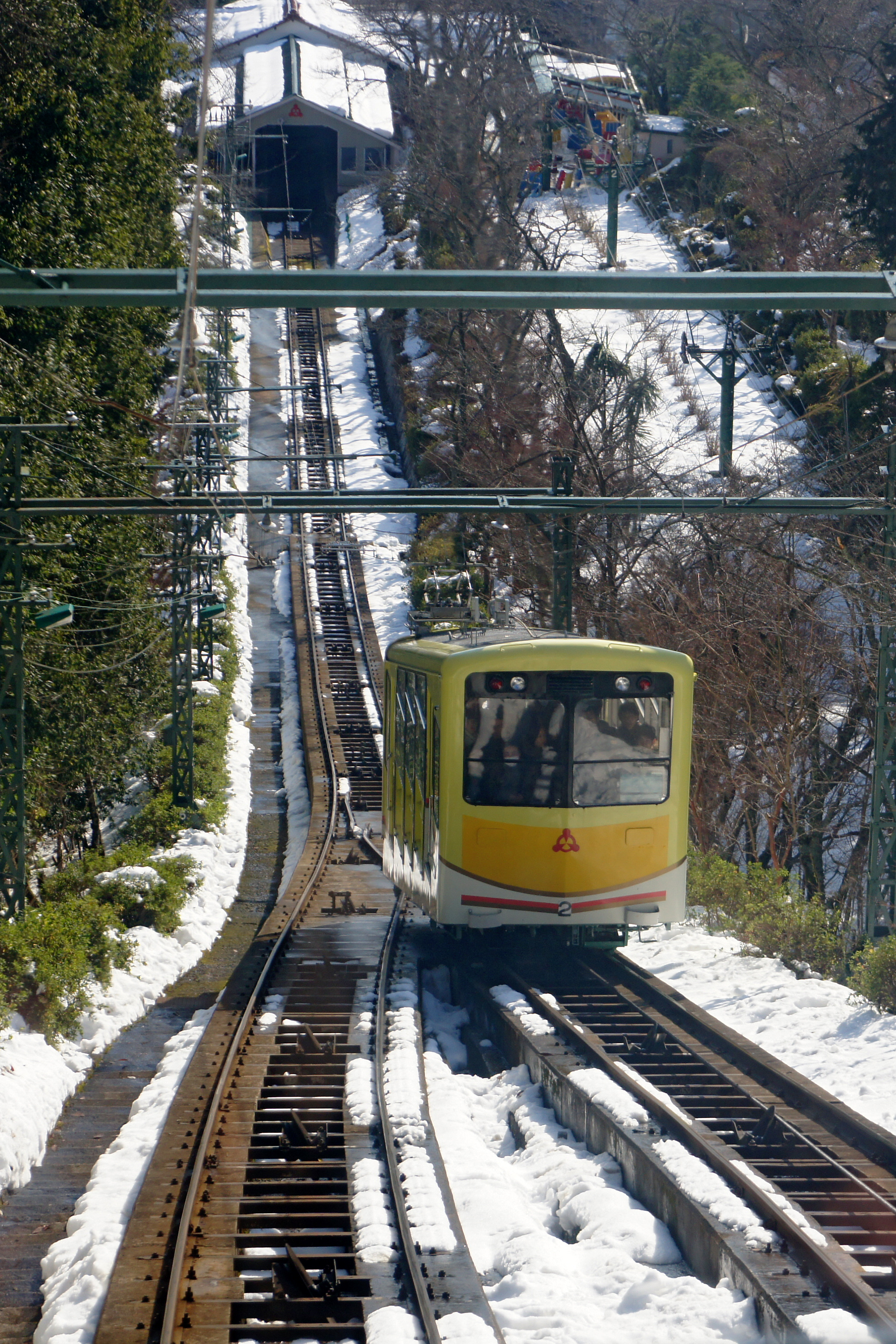 Amanohashidate Cable Car in Miyazu, Kyoto prefecture, Japan.